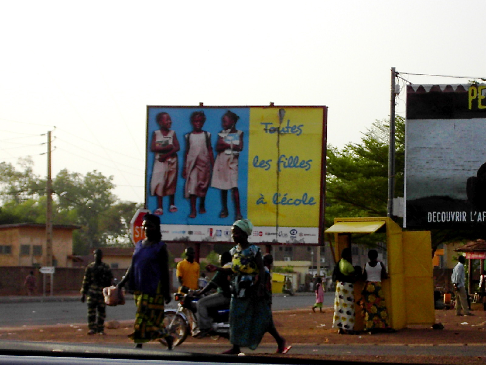 Plan International in Niger